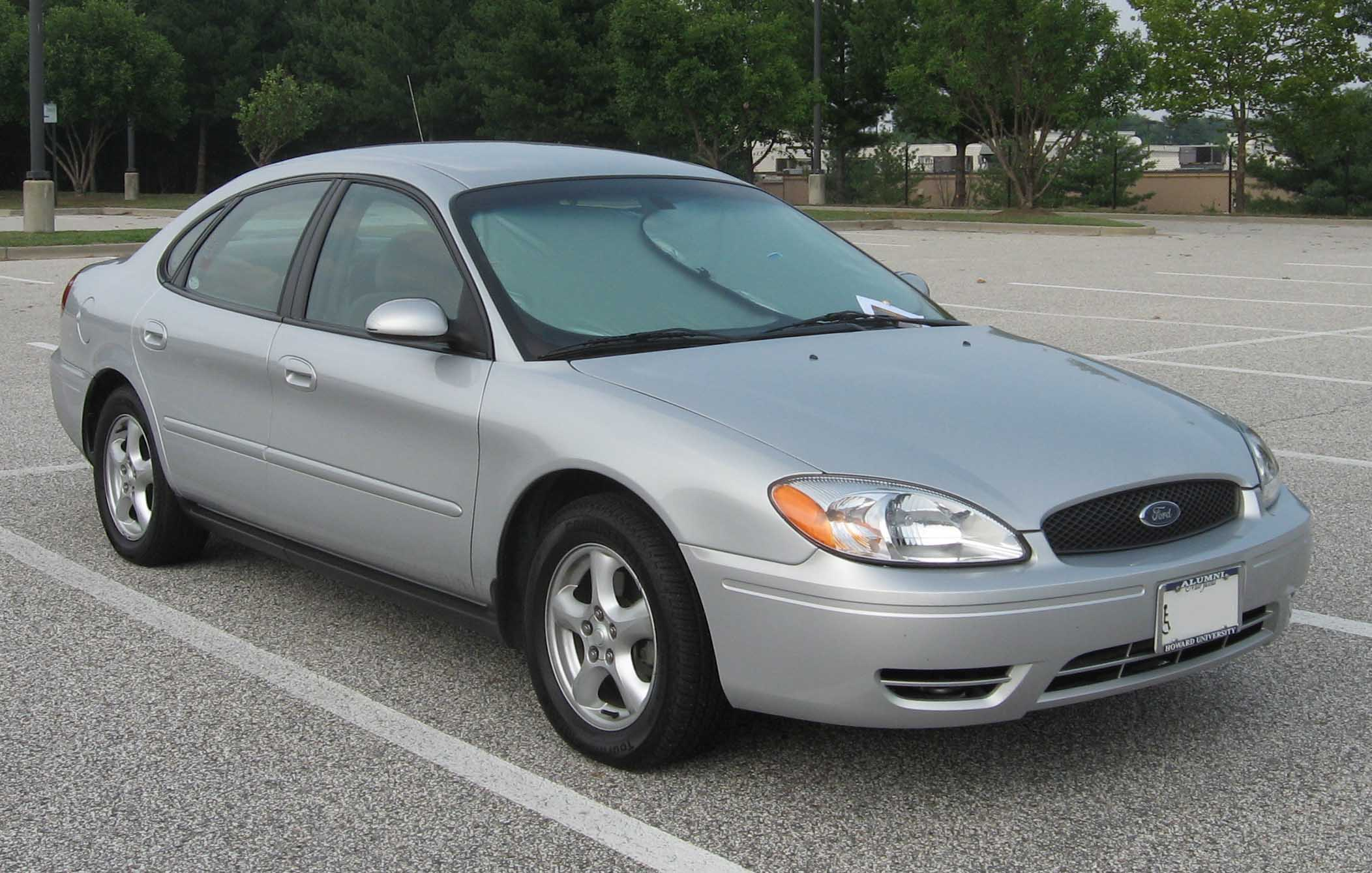 2005-2007 Ford Taurus photographed in USA.